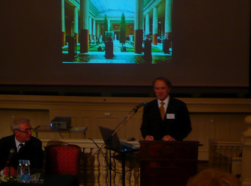 Jeff Daly giving lecture on his renovation of the Metropolitan Museum's Greek and Roman galleries at a Hermitage conference.